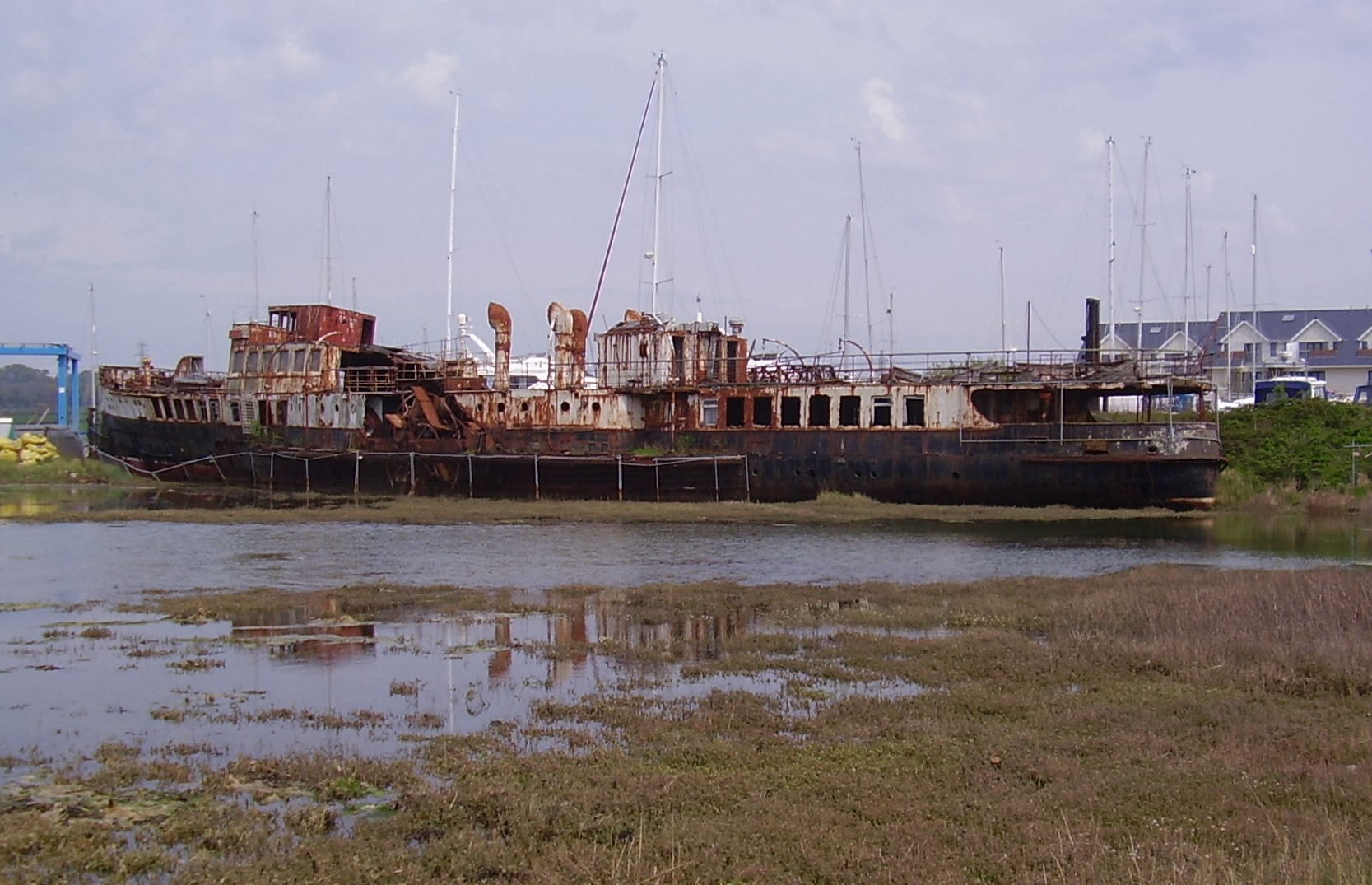 Paddle Steamer Ryde decaying at Island Harbour Marina, Isle of Wight, UK (May 2016)